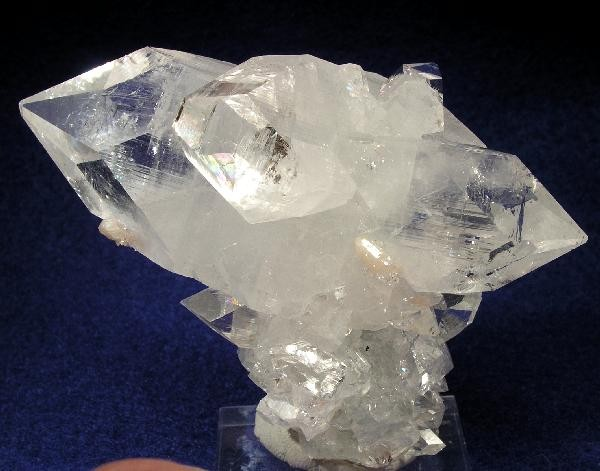 Apophyllite-(KF) Locality: Jalgaon District, Maharashtra, India (Locality at ) Size: 8.8 x 5.2 x 4.4 cm. Fabulous 8.4 cm doubly-terminated Stilbite on a stalactite. Each termination is gemmy. One comes to a sharp point, the other has a slight flat end (actual termination or cleave -hard to say). Regardless, this is an amazing and aesthetic piece for the sheer size and quality of the dominant crystal. Ex. Steve Smale Collection.